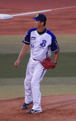 Tomo Ohka, pitcher of the Yokohama BayStars, at Yokohama Stadium.